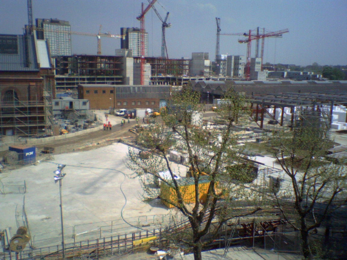 The Westfield White City shopping centre development, London, showing the area of the new subterranean Central line depot for London Underground. To the left, the grade II listed Dimco building (former power station) has been preserved for redevelopment into a bus station.